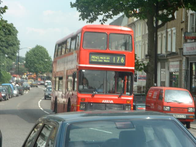 Ex-Kentish Bus Leyland Olympian/Northern Counties Palatine 1, seen here having been transferred to Arriva South London (Norwood) for use on route 176, given the L class prefix (normally used on ECW bodied Olympians)